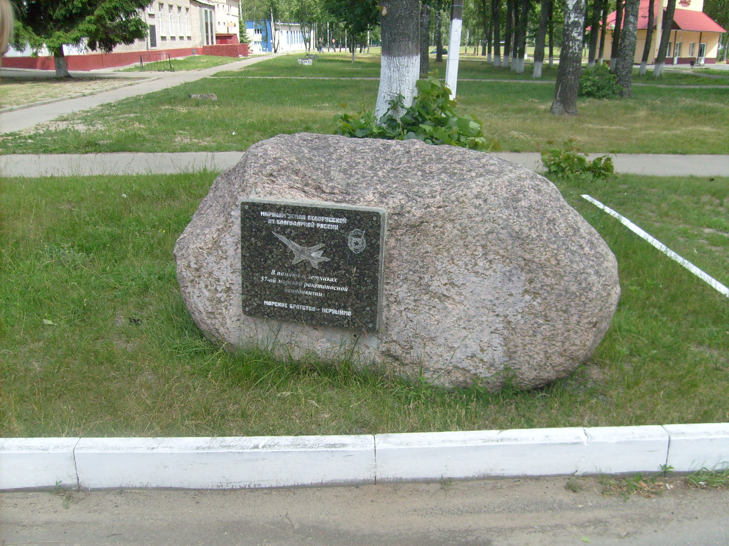 Military town Bykhov-1. Heroes Square